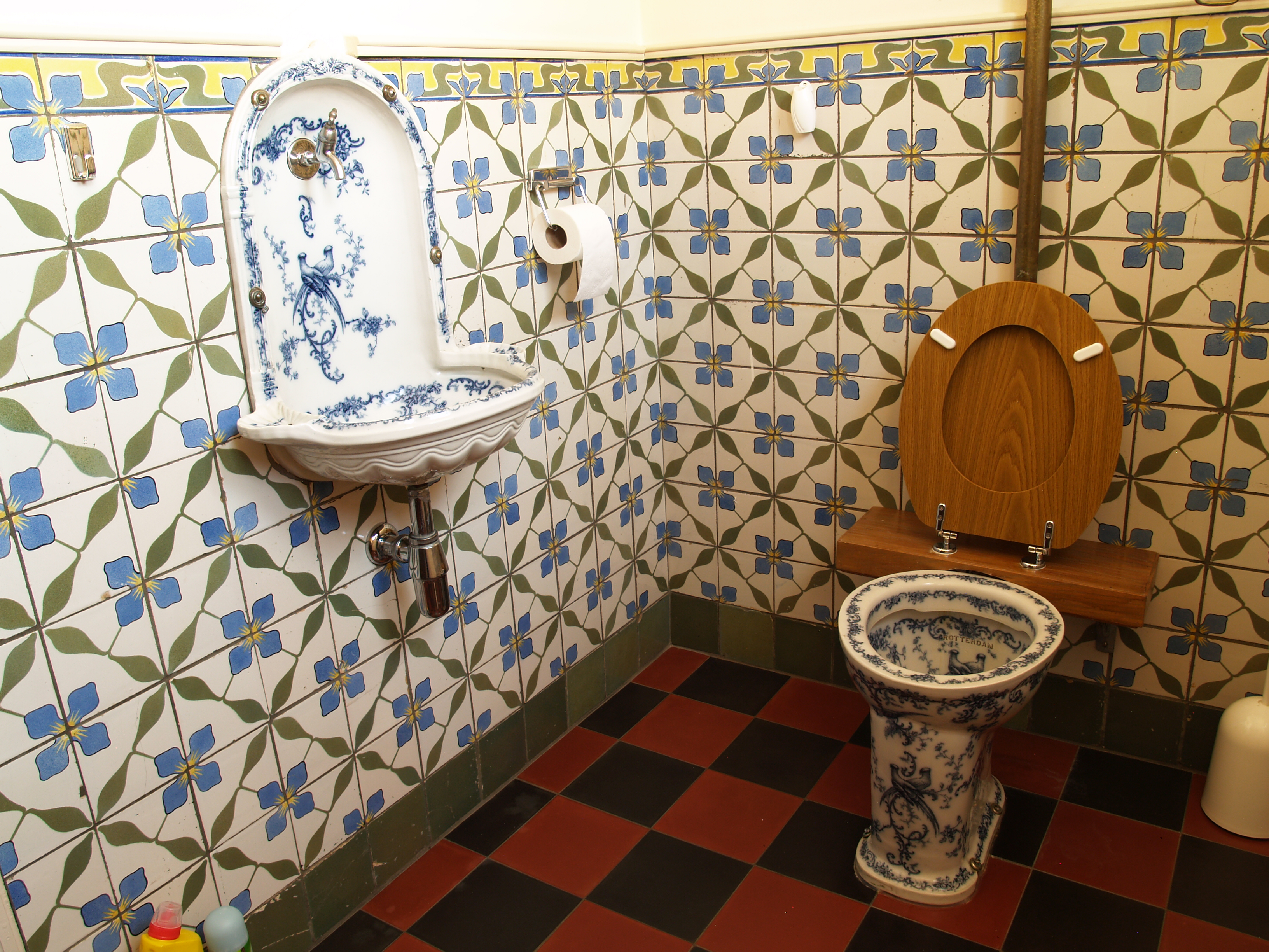 Monumental toilet and sink in the Netherlands, probably dating circa 1900, manufactured at Cauldon Works, Bates Brown-Westhead & Moore, Stoke on Trent, England